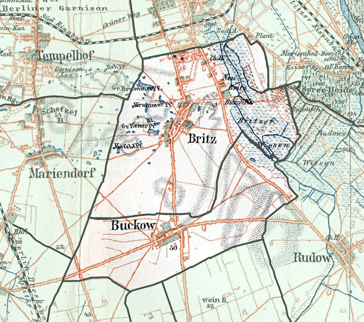 Britz and Buckow on Map "Berlin und Umgebung", Rectified and projected to equirectangular projection